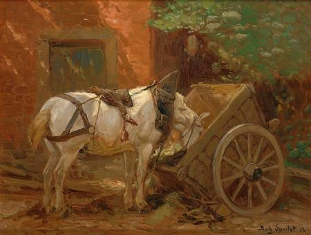 "Schimmel mit Zaumzeug frisst aus dem Gemüsewagen", oil, 45 x 58,5 cm.